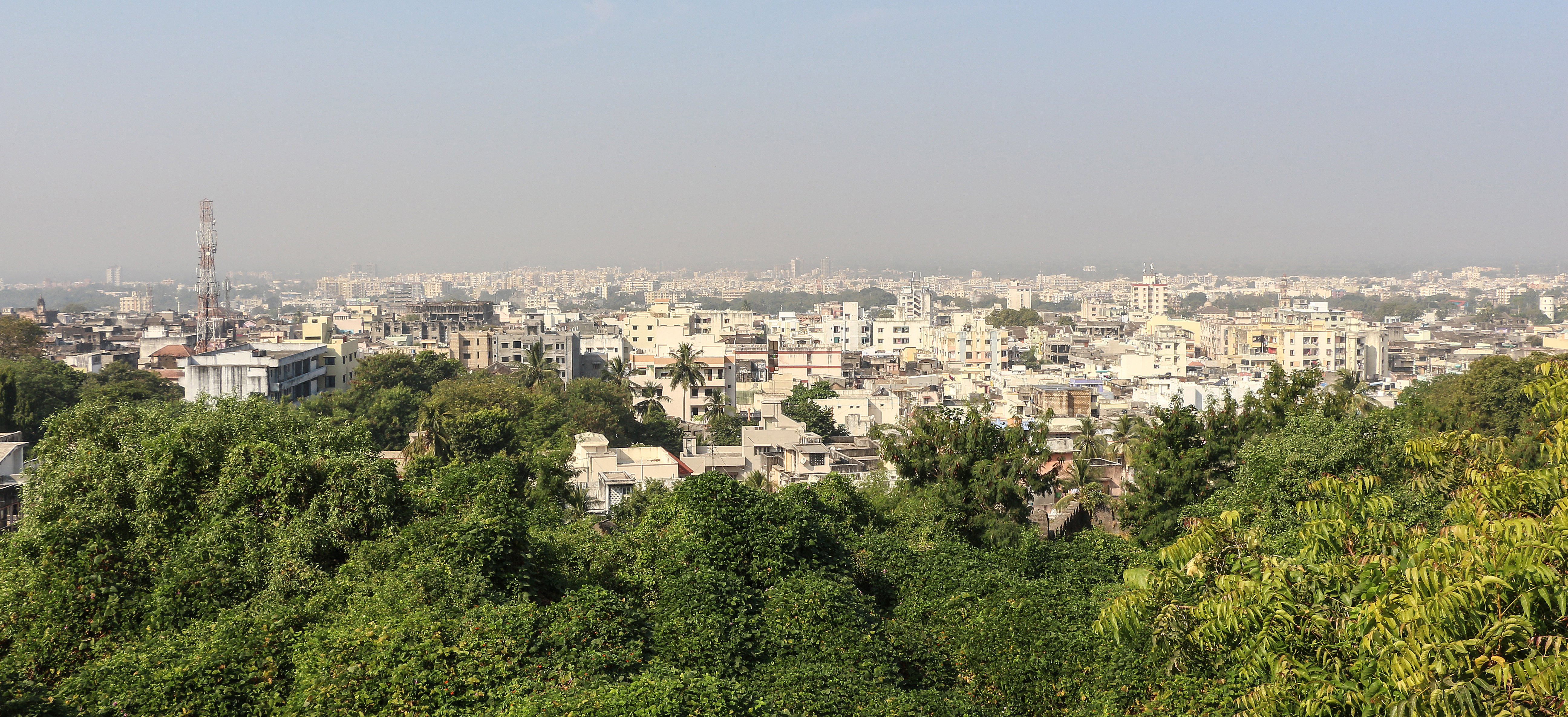 View of the city of Junagadh from the Uperkot Fort, India